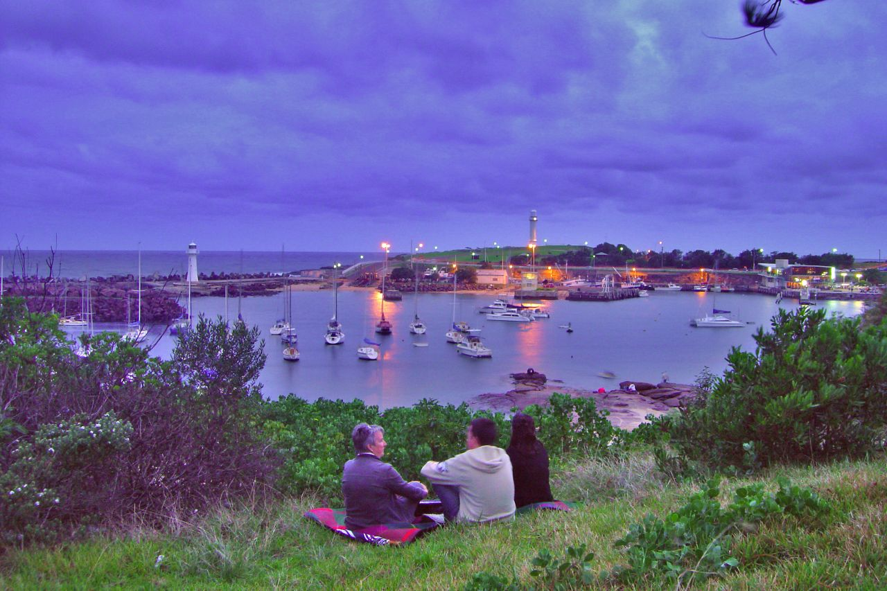 Spectators await the Wollongong NYE Fireworks at Dusk